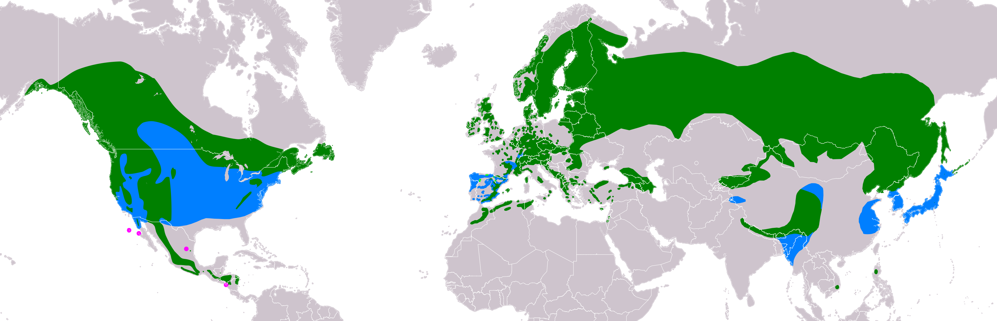 Distribution map of Red Crossbill (Loxia curvirostra) according to IUCN version 2019.3; key: Legend: Extant, breeding (#00FF00), Extant, resident (#008000), Extant, non-breeding (#007FFF), Extant & Vagrant (seasonality uncertain) (#FF00FF)